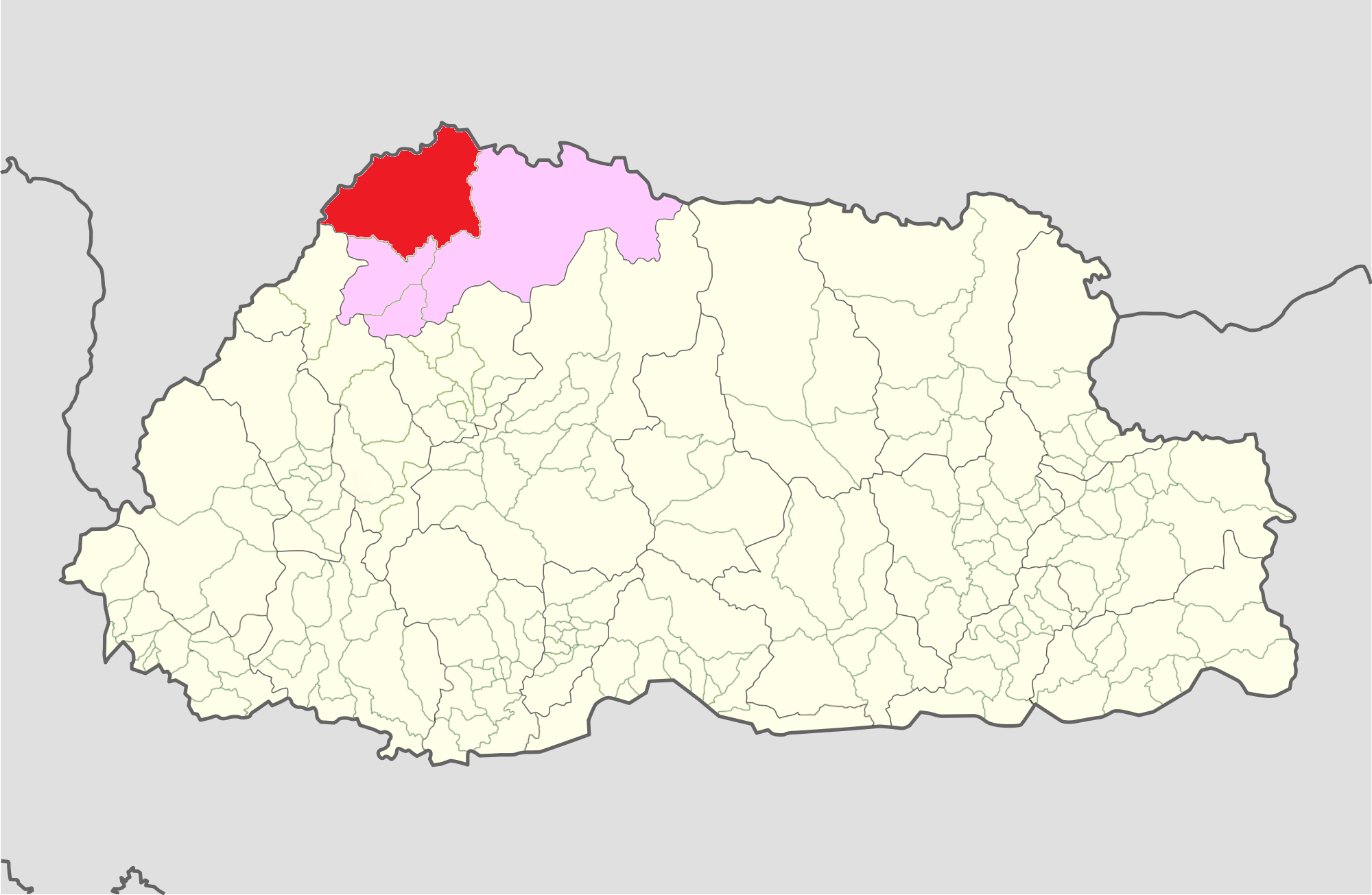 Laya Gewog within Gasa District, Bhutan